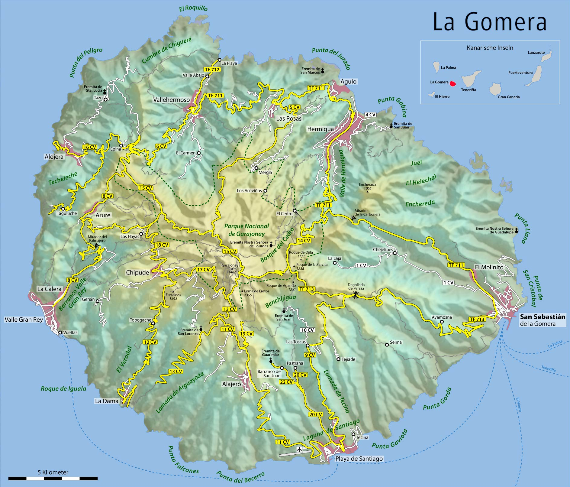 Map of La Gomera